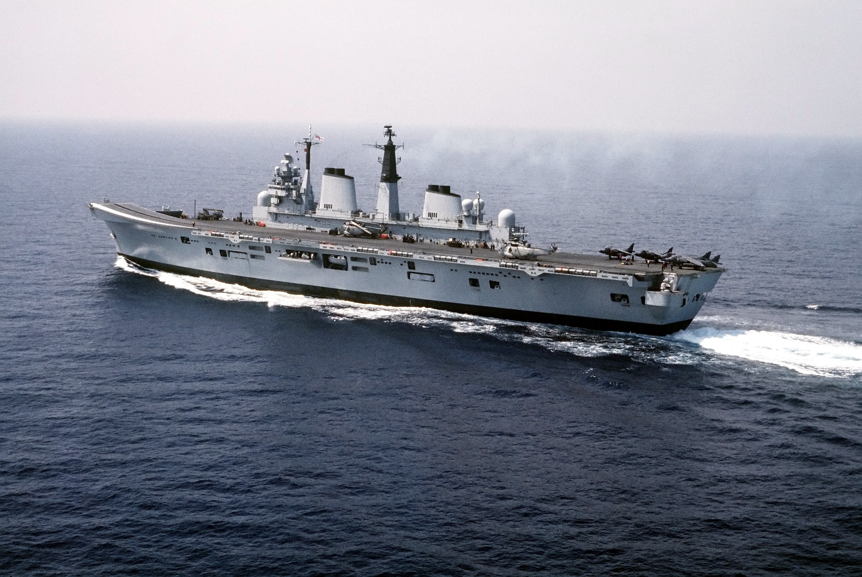 A port view of the British light aircraft carrier HMS INVINCIBLE (R-05) underway during the NATO Southern Region Exercise Dragon Hammer '90.